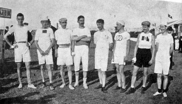 The runners that participated in the marathon of "Juegos Olímpicos del Centenario", commemorating the Centennial of Argentina, held in Sociedad Sportiva Argentina. From left to right: A. Creuz, M. Soto (Spain), J. Becerra (Chile); M. Giachino (Argentina), A. Lasscuay (Uruguay), A. Carraro (Argentina), Dorando Pietri and E. Bergamasco (both from Italy).